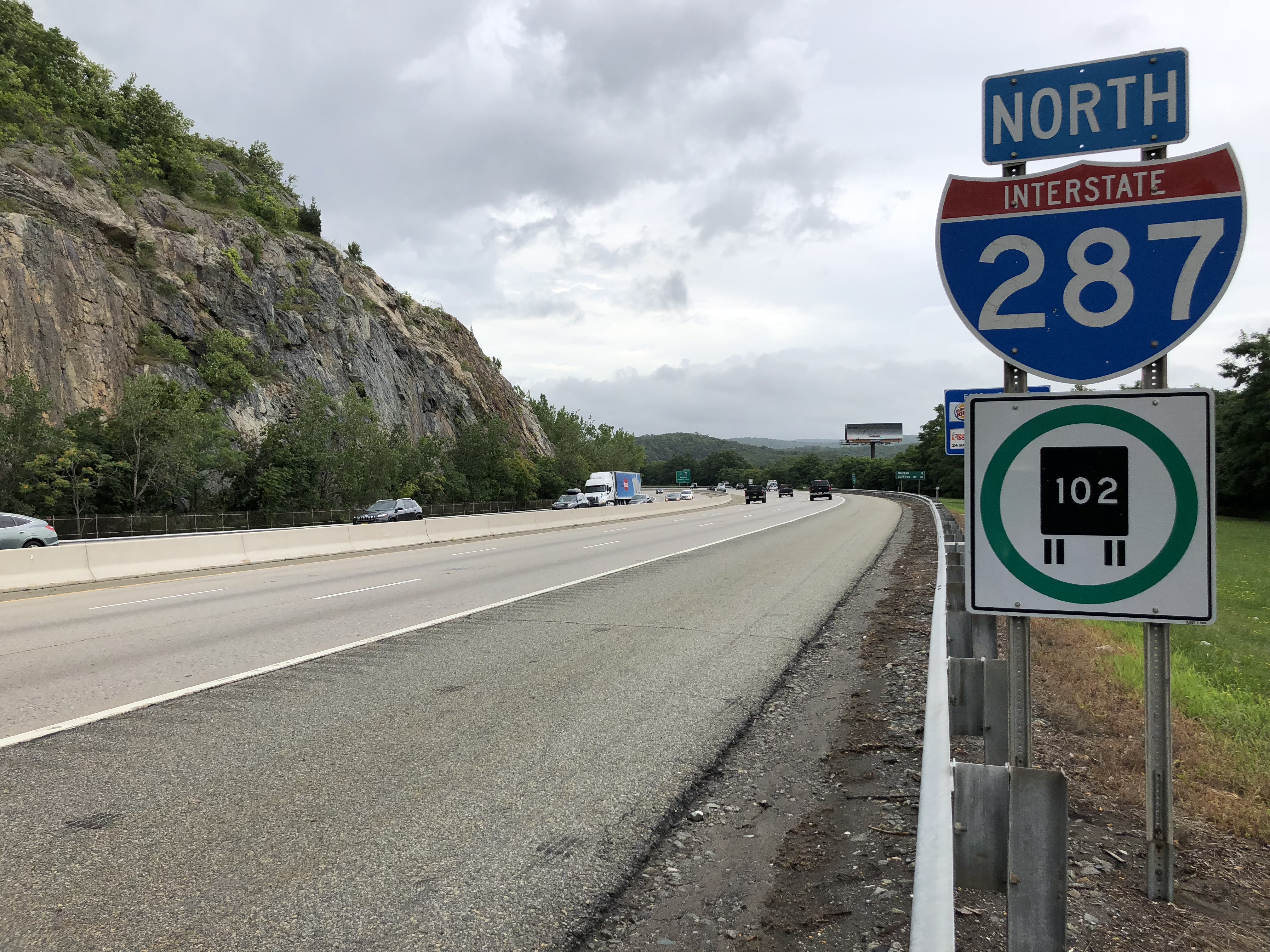 View north along Interstate 287 between Exit 53 and Exit 55 in Bloomingdale, Passaic County, New Jersey